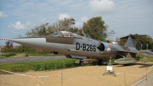 Lockheed F104G Starfighter texel airport